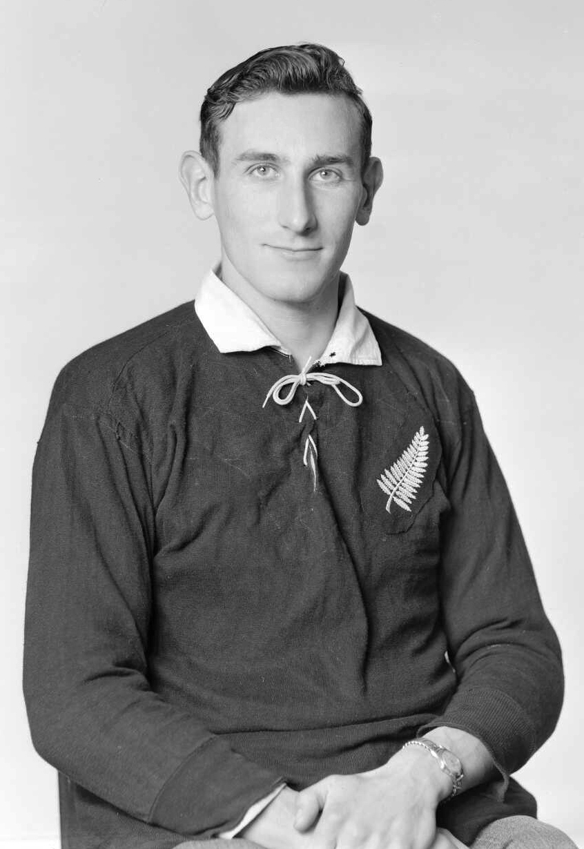 Photograph of rugby player Colin Loader as a member of the 1953-54 All Black touring team to Great Britain, France and America. Taken ca1953 by Crown Studio Ltd of Wellington.